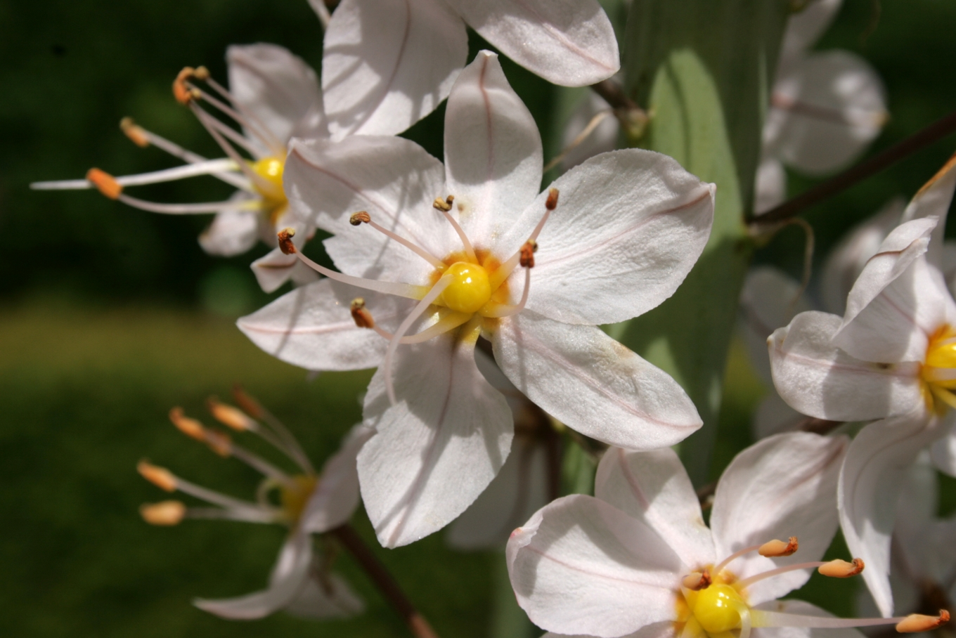 Eremurus robustus: Close-up on a flower